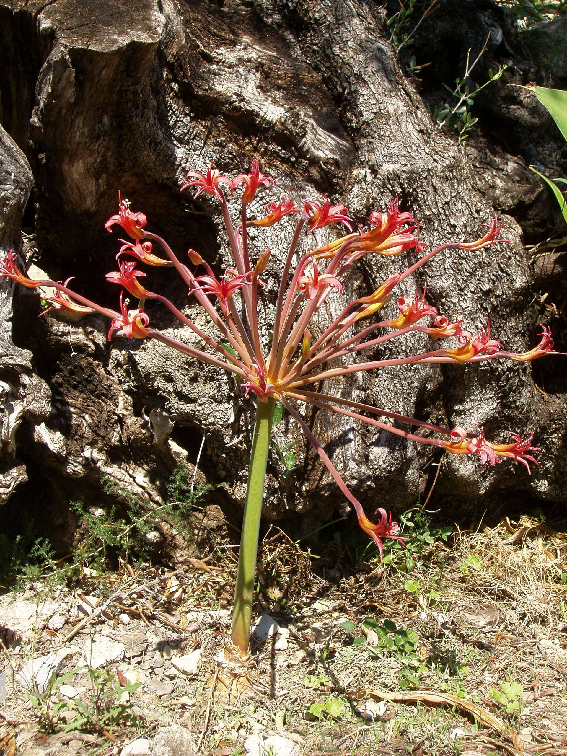 Brunsvigia josephinae, growing in the Villa Hanbury botanical garden, Ventimiglia, Italy.